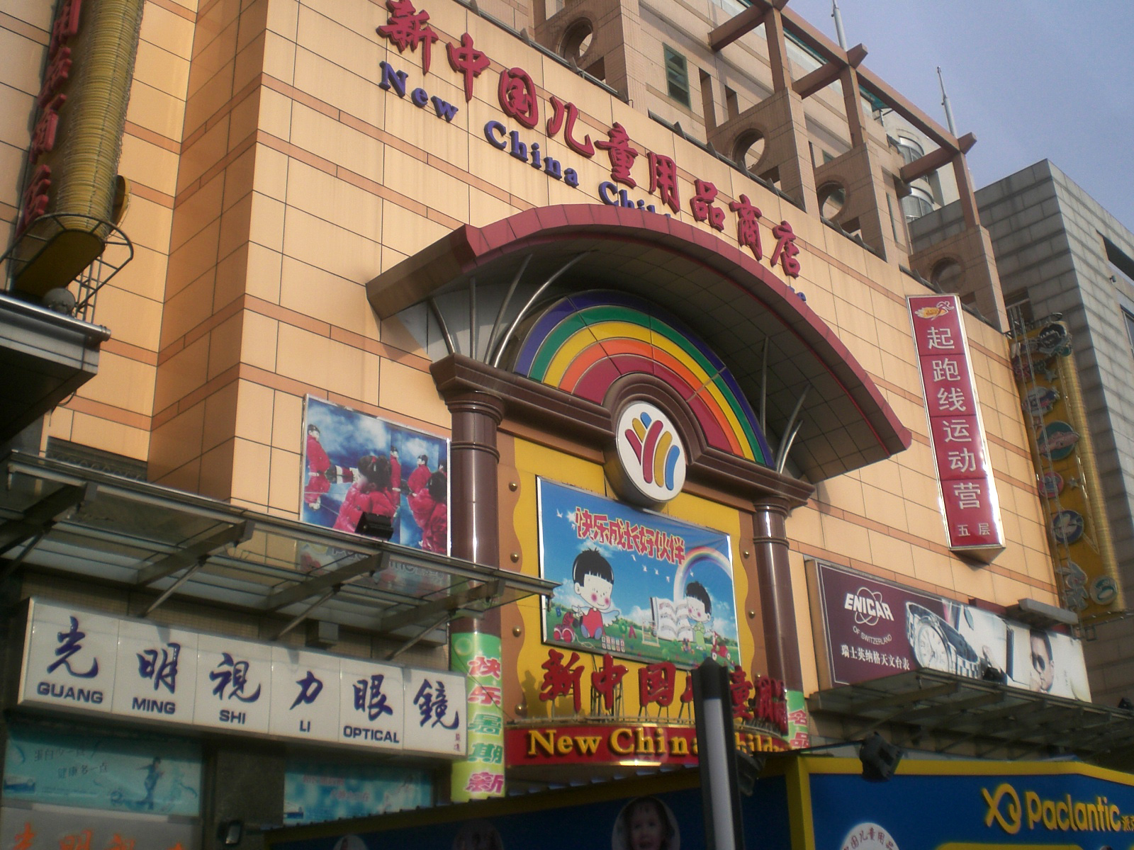 北京市東城區王府井王府井大街 東安市場